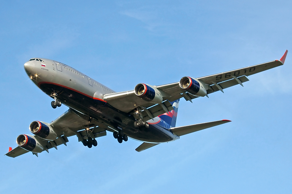 Ilyushin IL-96